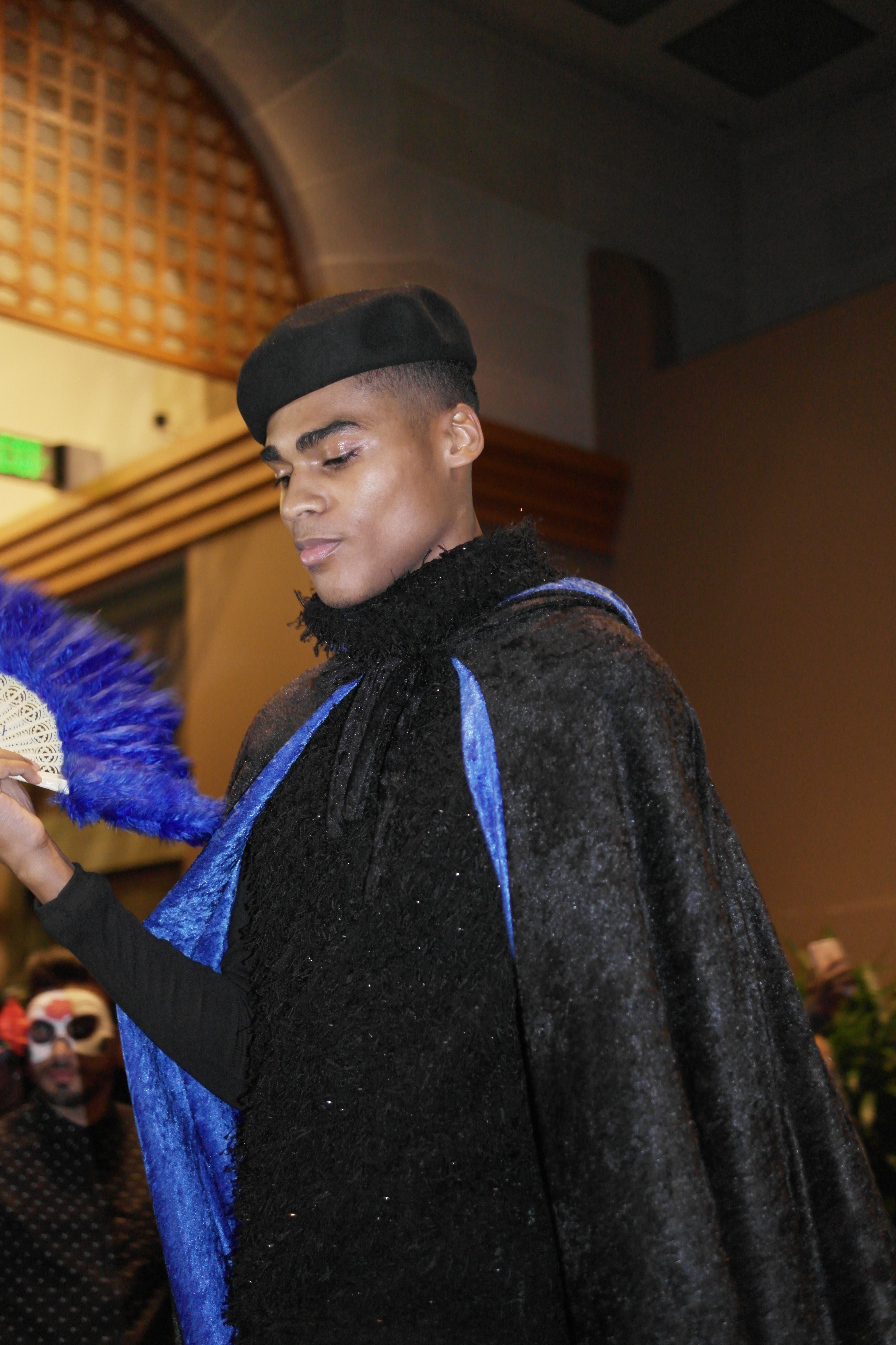 by LGBT folks at National Museum of African Arts